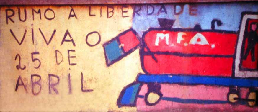 MFA The road to freedom, to cheer the April 25